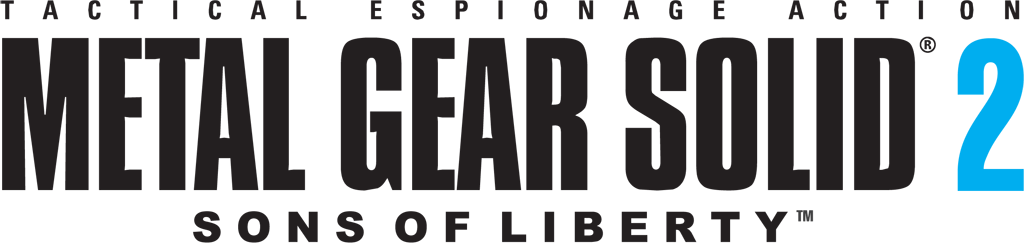 Logo from the Konami's Metal Gear Solid 2: Sons of Liberty videogame.